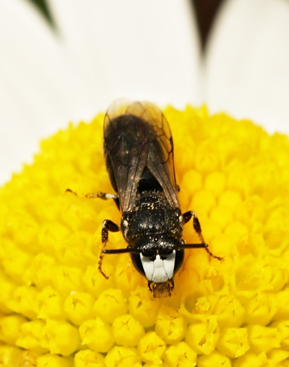 male Hylaeus nigritus from a meadow near Nettersheim, Germany.